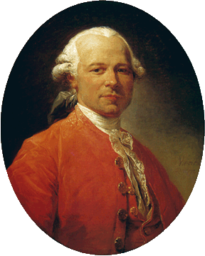 Portrait of Jean Houel